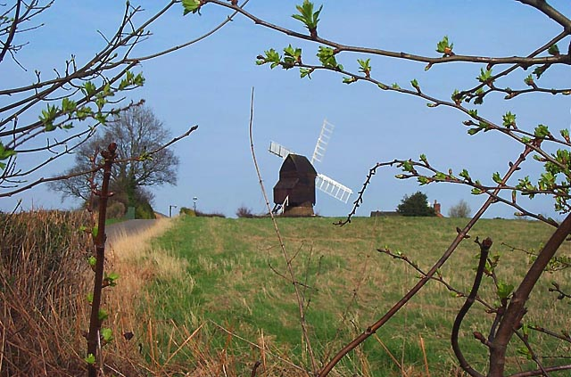 Cat and Fiddle Mill, Dale Abbey, Derbyshire